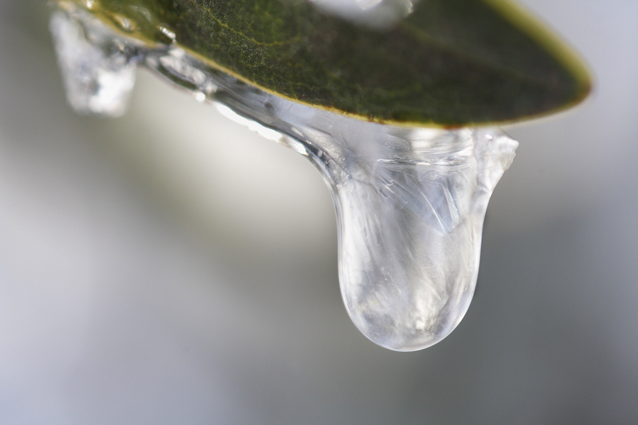 A frozen water droplet.